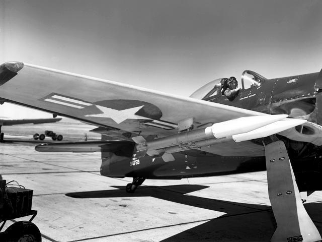 6.5-Inch Anti-Tank Aircraft Rocket ("RAM") mounted on Grumman F8F-1 Bearcat at NOTS, China Lake, California.